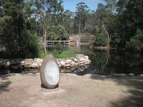 Sculpture in front of the main lake at Central Gardens, Merrylands West NSW